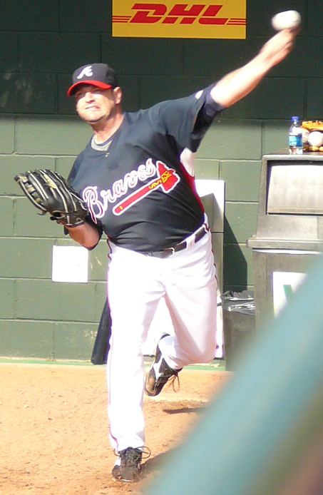 Will Ohman, a Major League Baseball Player in America